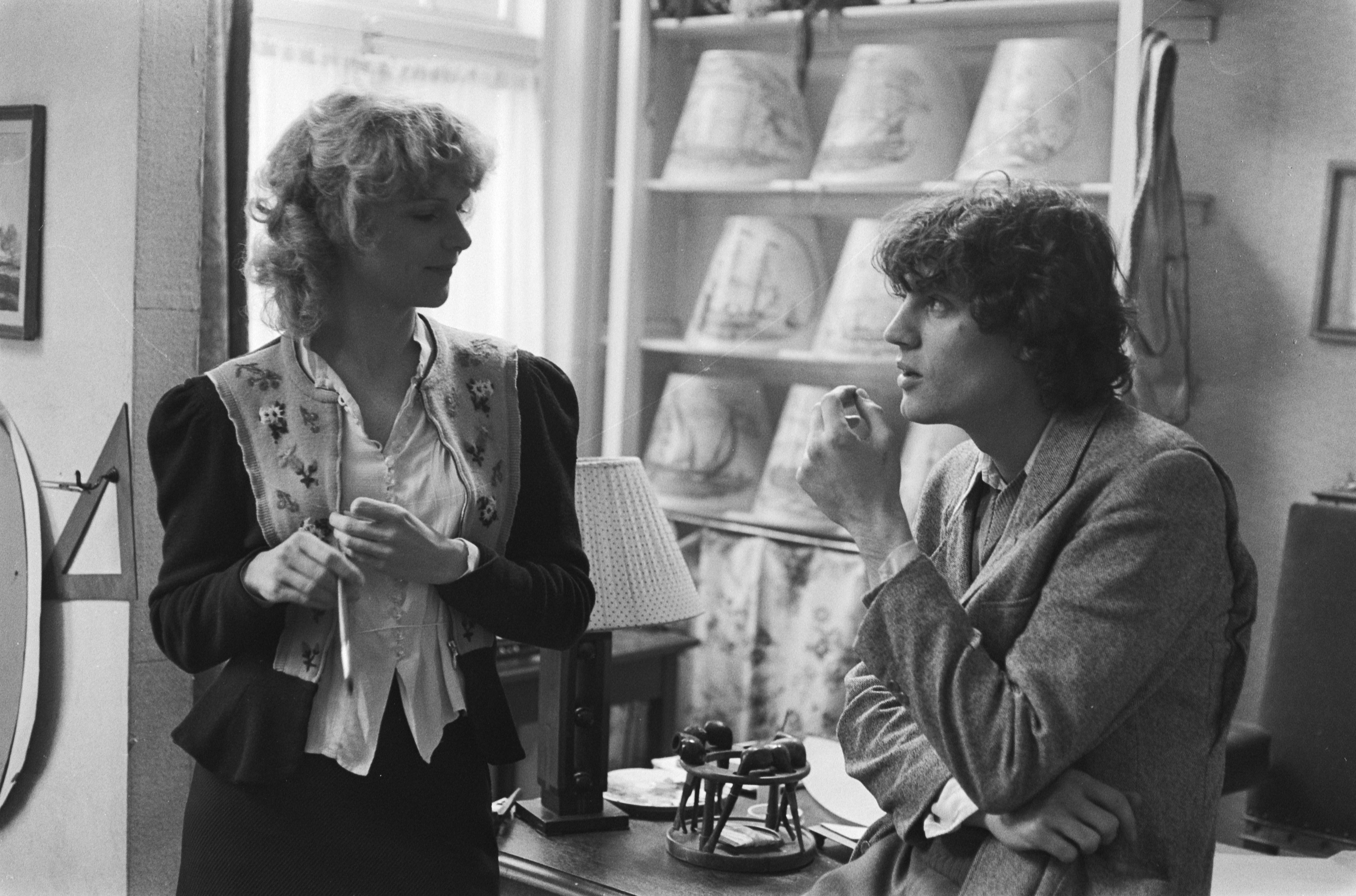 Filmset of the movie Kort Amerikaans in Leiden (The Netherlands), 13 March 1979. Left to right: Tingue Dongelmans, Derek de Lint.